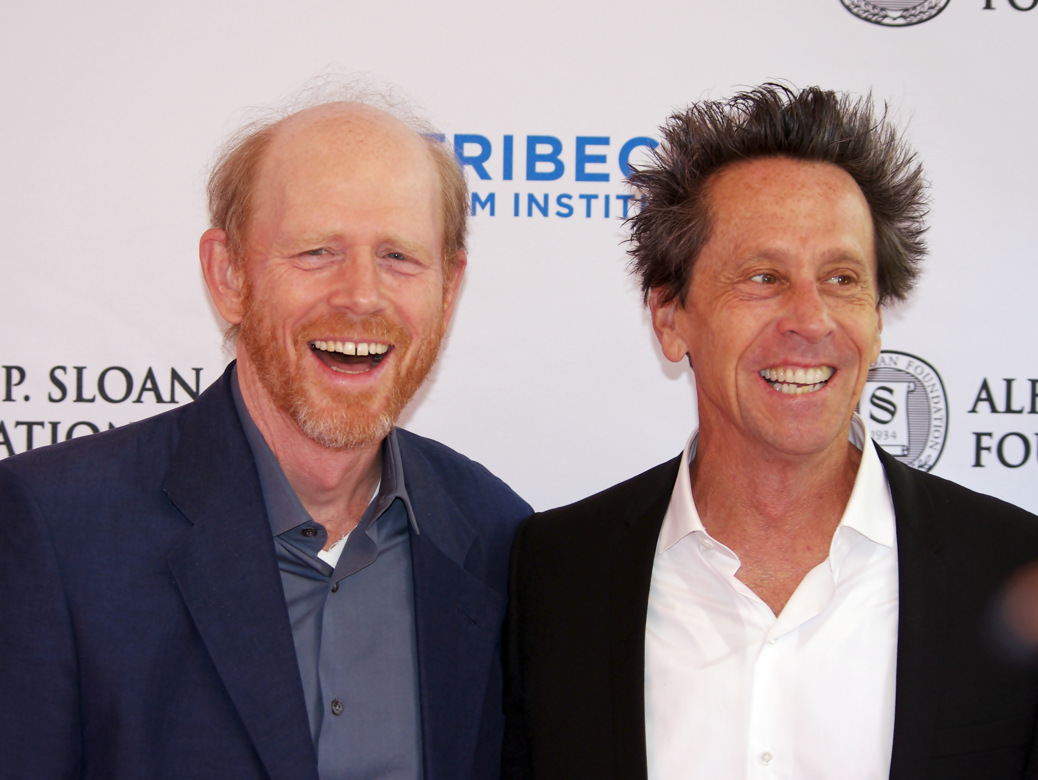 Ron Howard and Brian Grazer at Tribeca Talks After the Movie: A Beautiful Mind, Presented by Tribeca Film Institute and the Alfred P. Sloan Foundation.